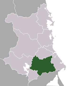 Location of Tay Hoa in Phu Yen Province